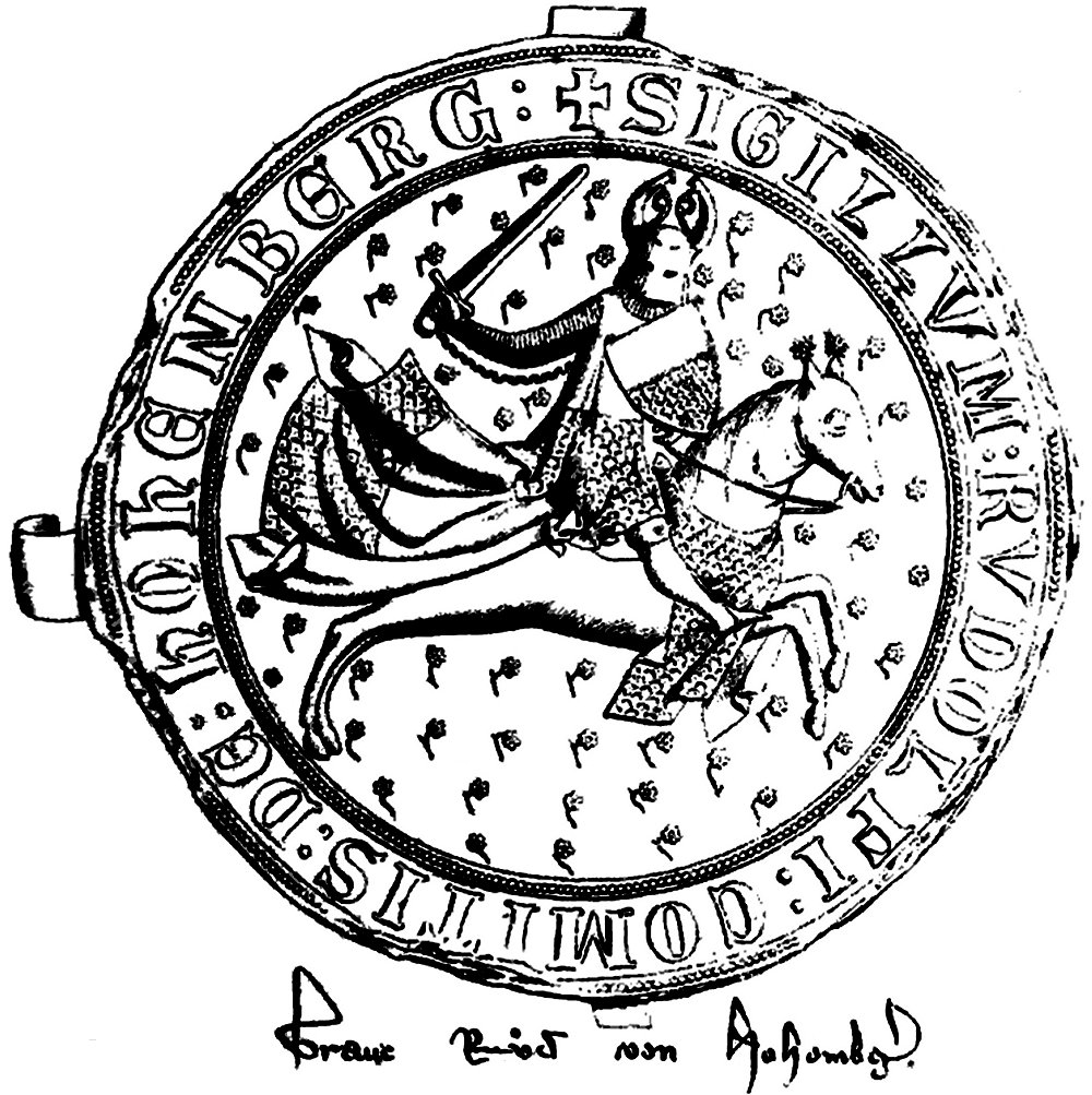 Coats of Arms of Rudolf von Hohenberg